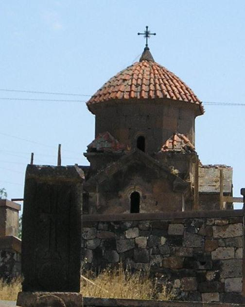 Karmravor church in Ashtarak, Armenia (no scaffoiling can be seen from this point of shooting) 1/15